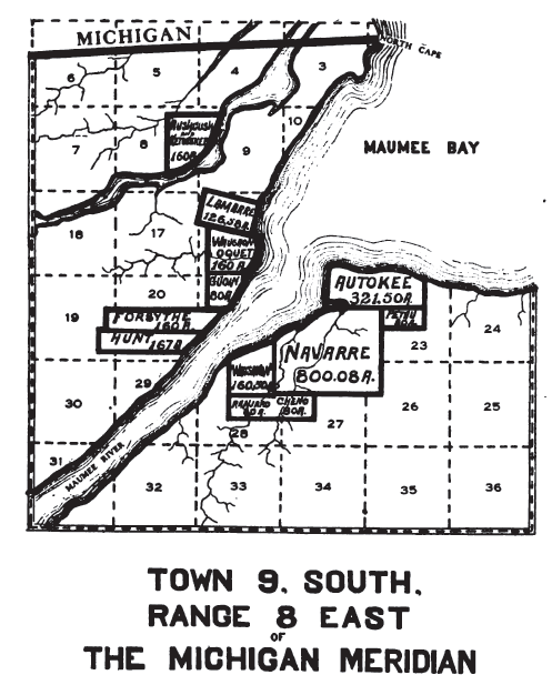 Map of federal land grants to Indian individuals in northwest Ohio known as the Indian Land Grants